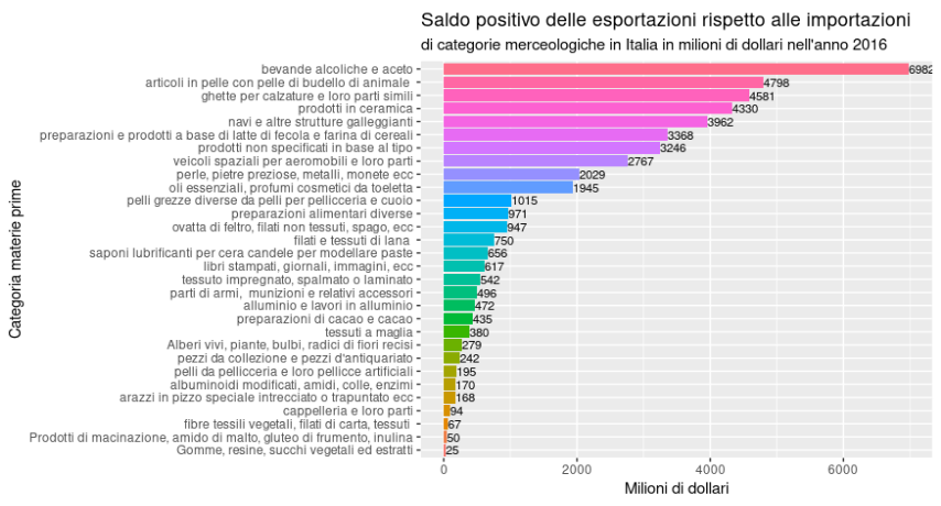 file realizzato con RStudio